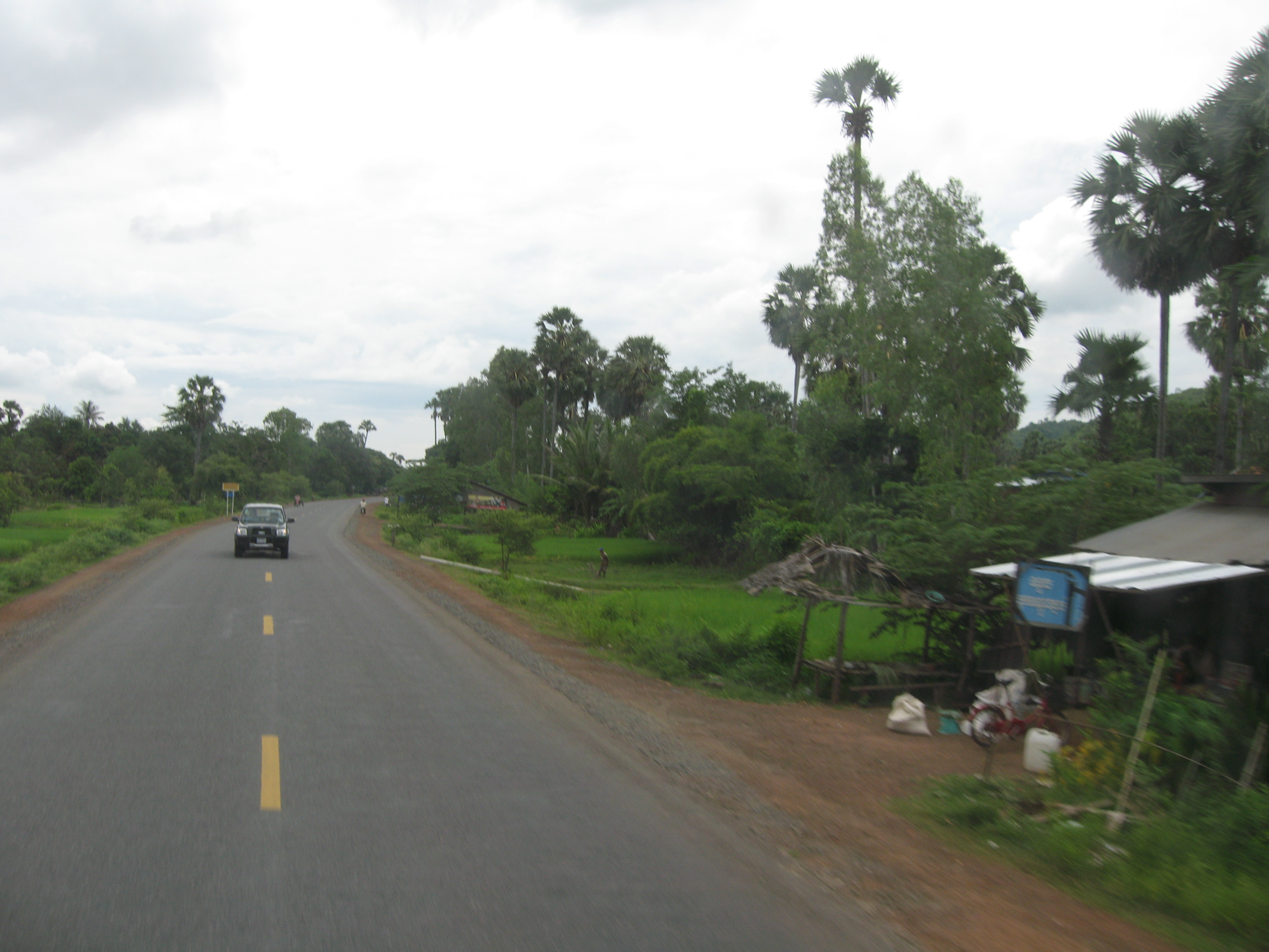 National road No.6 (ខេត្តបាត់ដំបង)